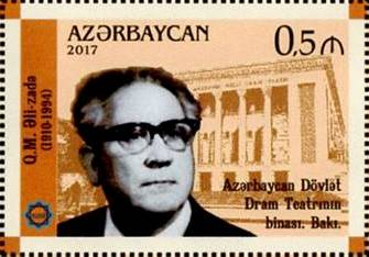 Union of Architects of Azerbaijan. N 1308 - 50 qapik. - There are pictured Ghazanfar Alizadeh and State Academic Drama Theater in Baku on the stamps.